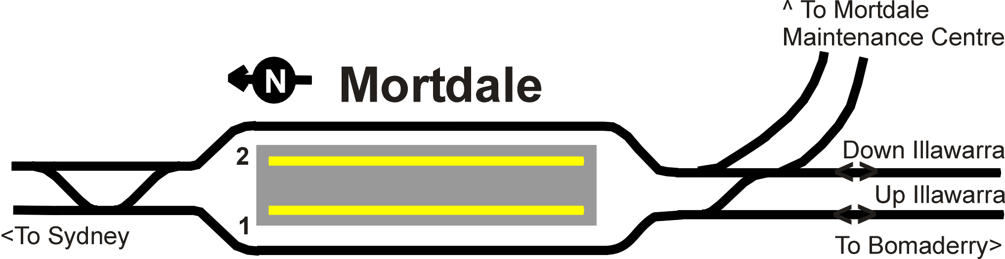 Track layout at Mortdale railway station